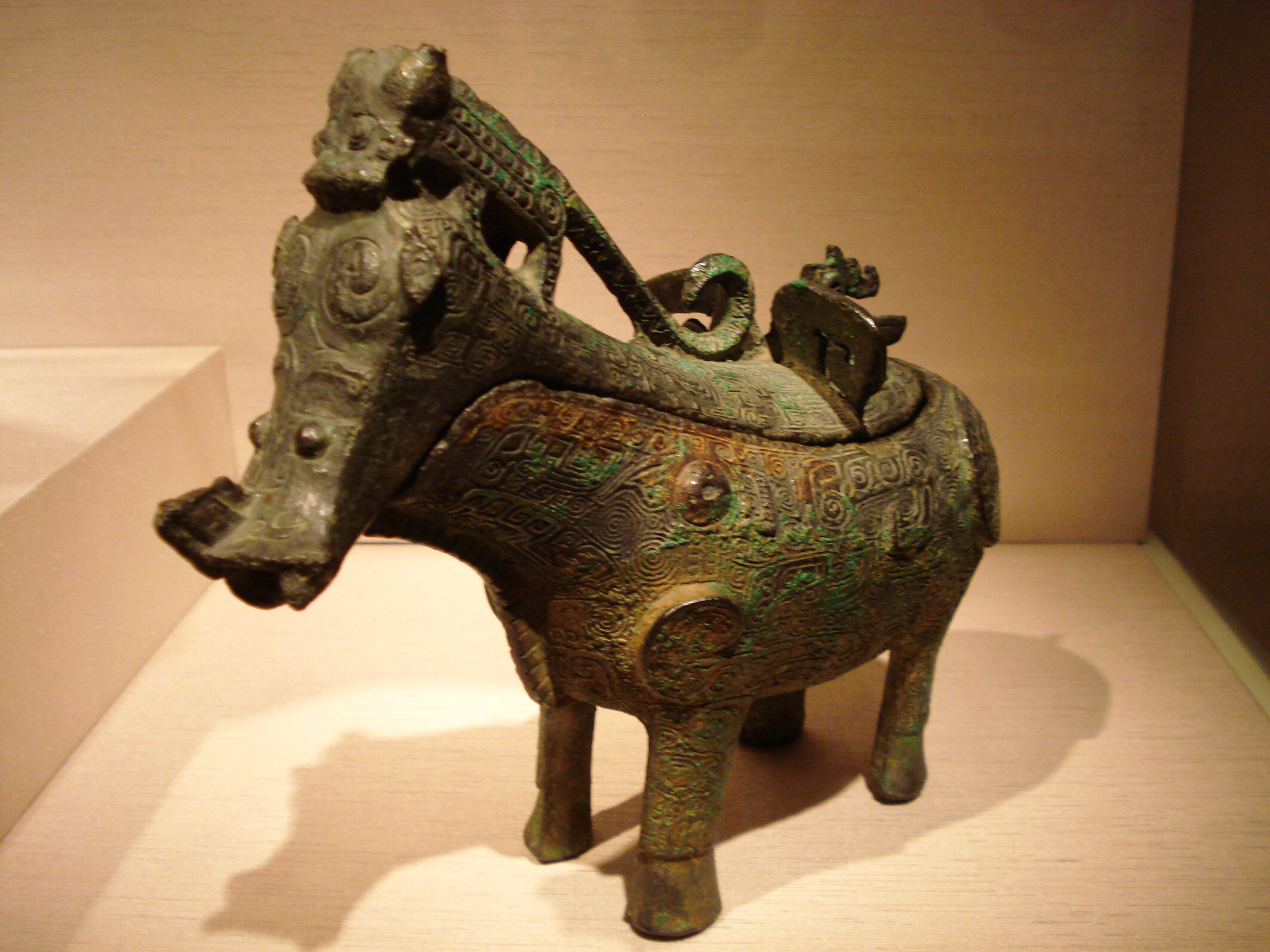 A Chinese bronze ritual wine container (zun) from the Shang Dynasty, dated 12th to 11th century BC. The short tusks projecting from the mouth, and the upturned stump at the mouth suggestive of a trunk, now broken, are the only physical clues that this creature was meant to be an elephant.